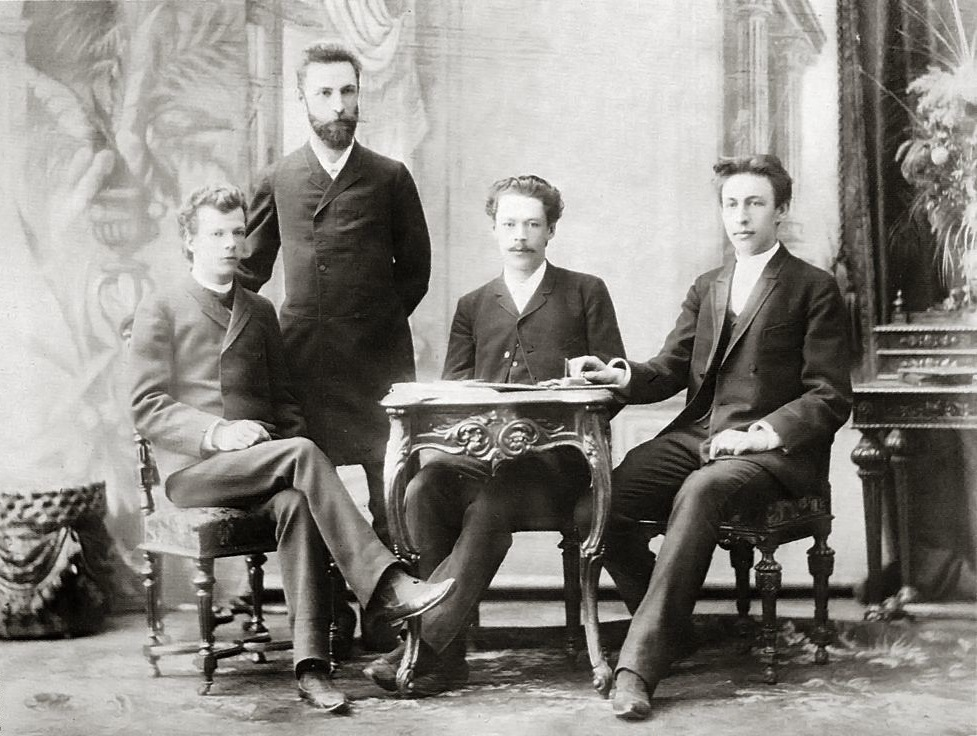 Anton Arensky (seated, middle) with his students (from left):Lev Conus, Nikita Morozov, and Sergei Rachmaninoff.